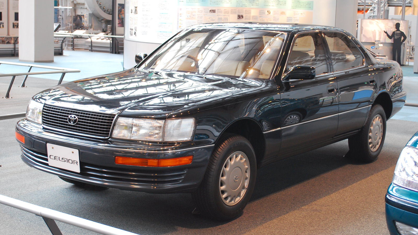 1st generation Toyota_Celsior